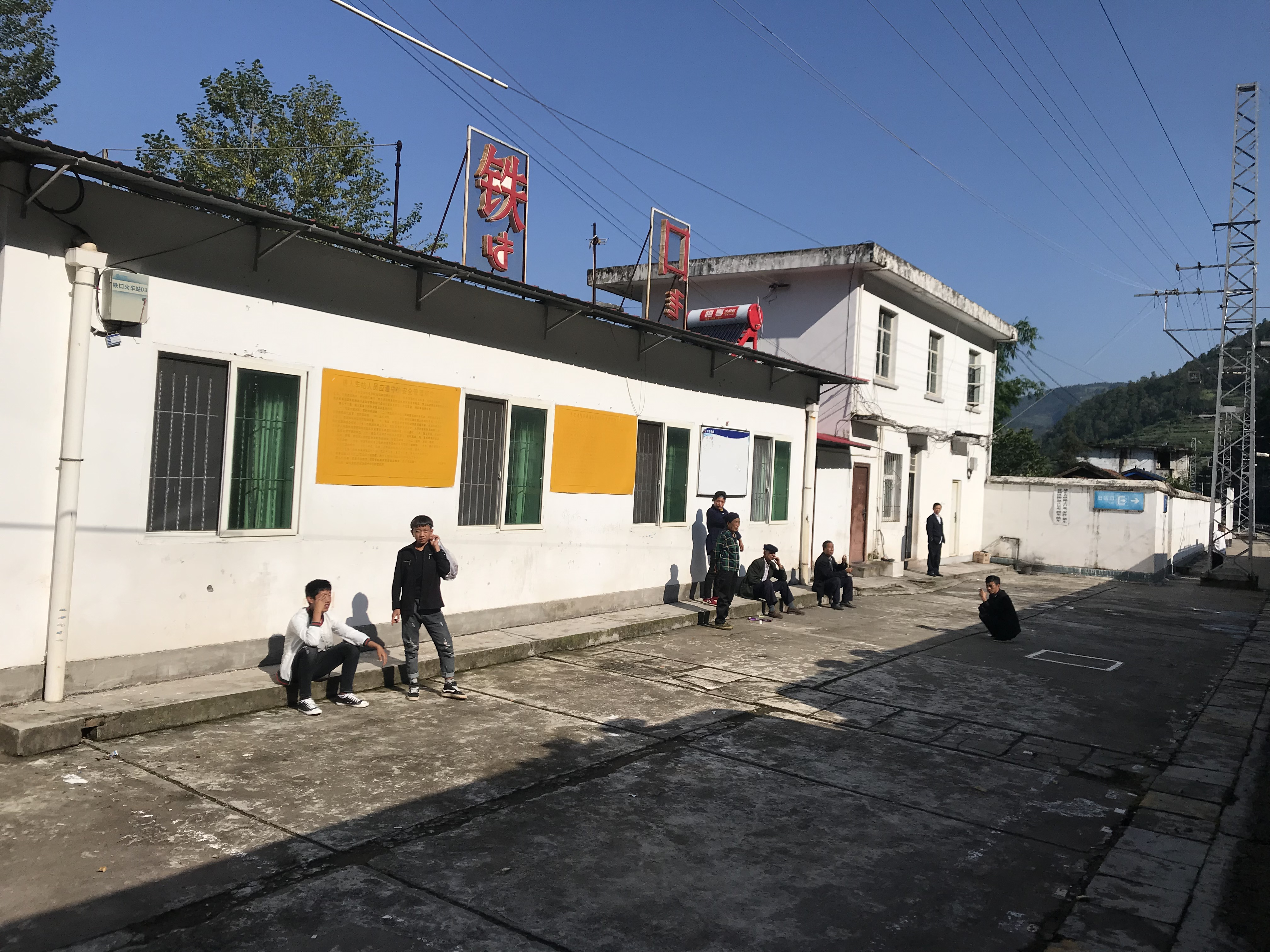 201908 Station Building of Tiekou